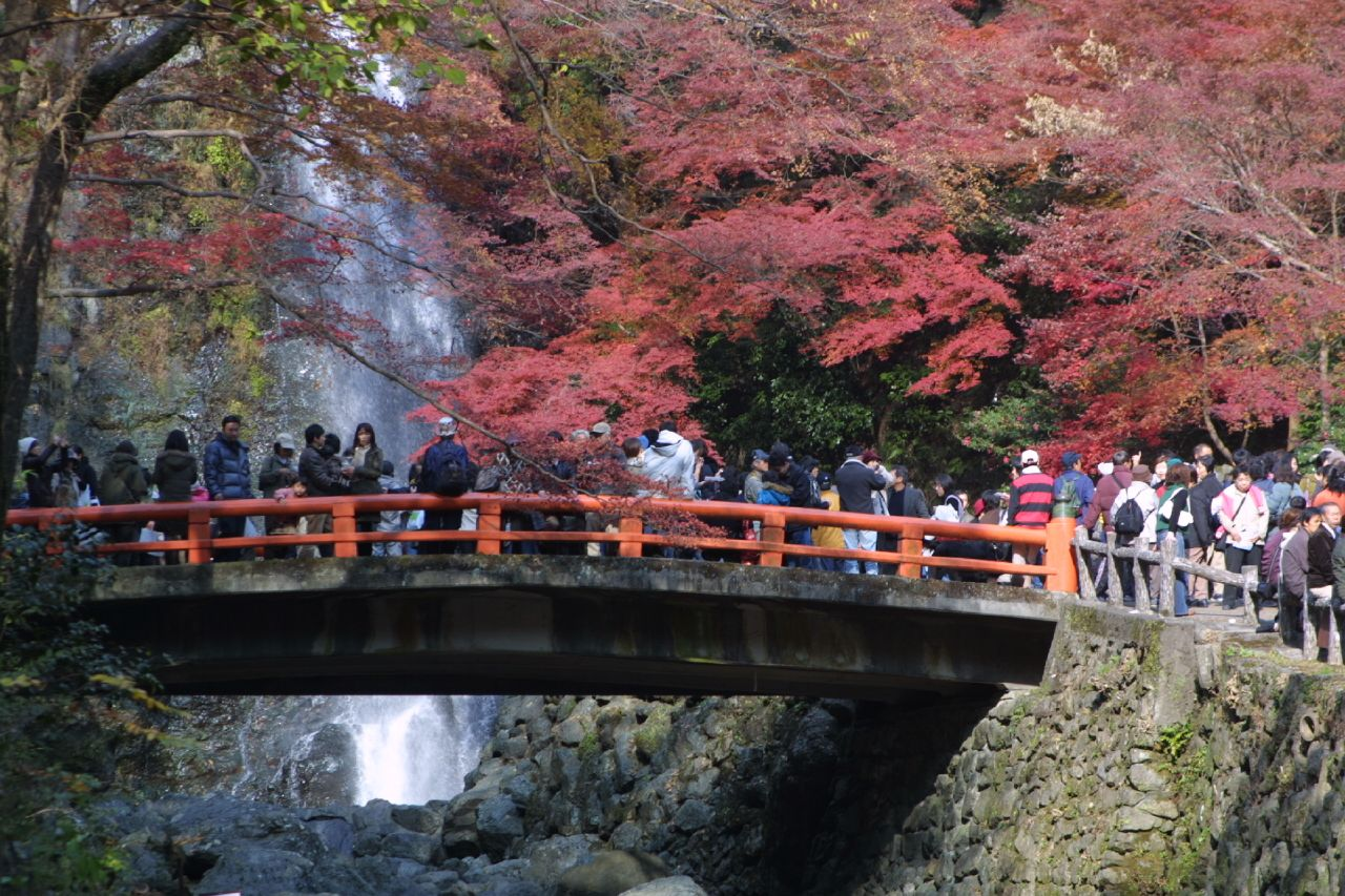 Minoh Falls (a.k.a. Minoh-no-taki or Minoh-otaki) in Minoh, Osaka Prefecture, Japan.